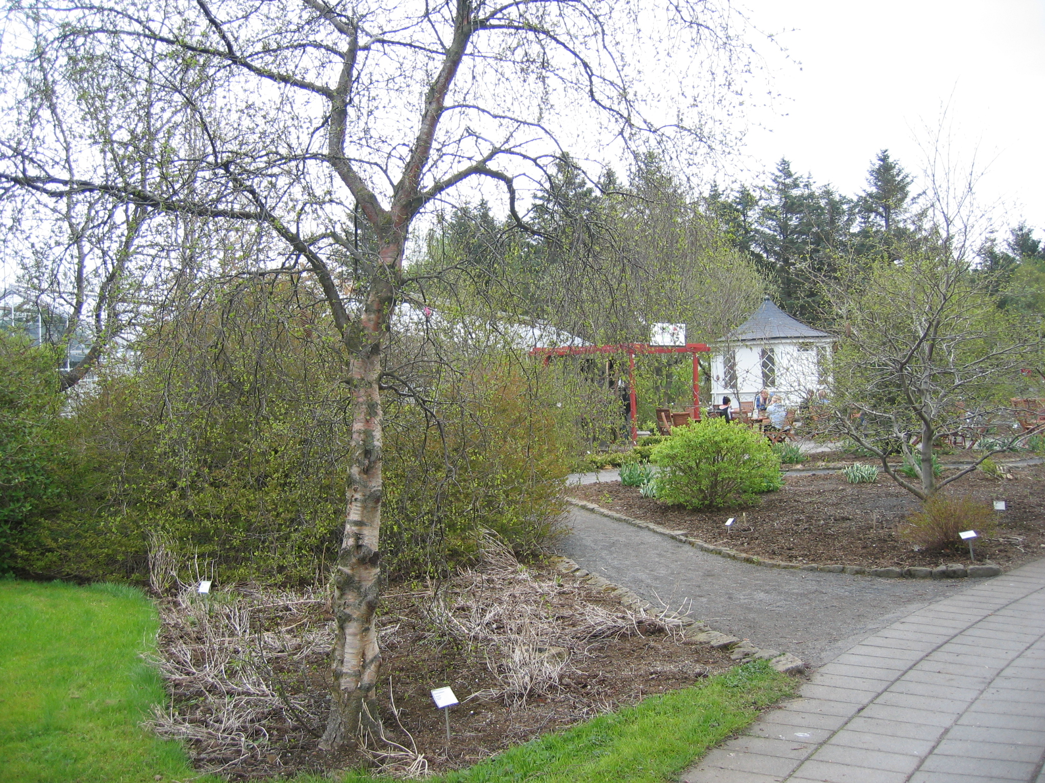 Photo taken in Grasagarður Reykjavíkur (Botanical Garden of Reykjavik) by Salvor Gissurardottir